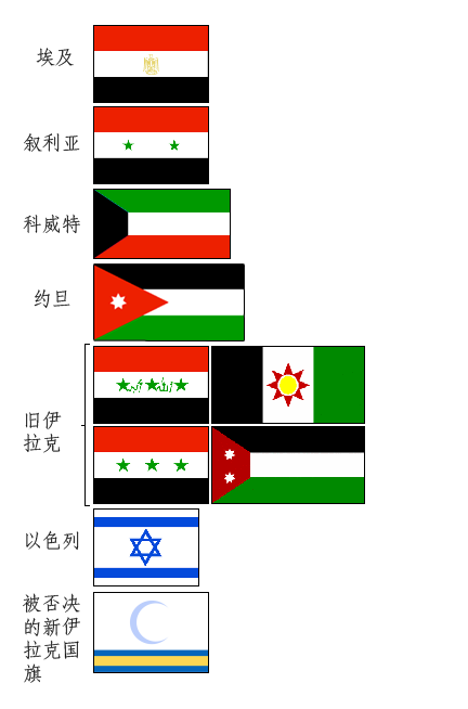 Flags of the countrys in the Middle East